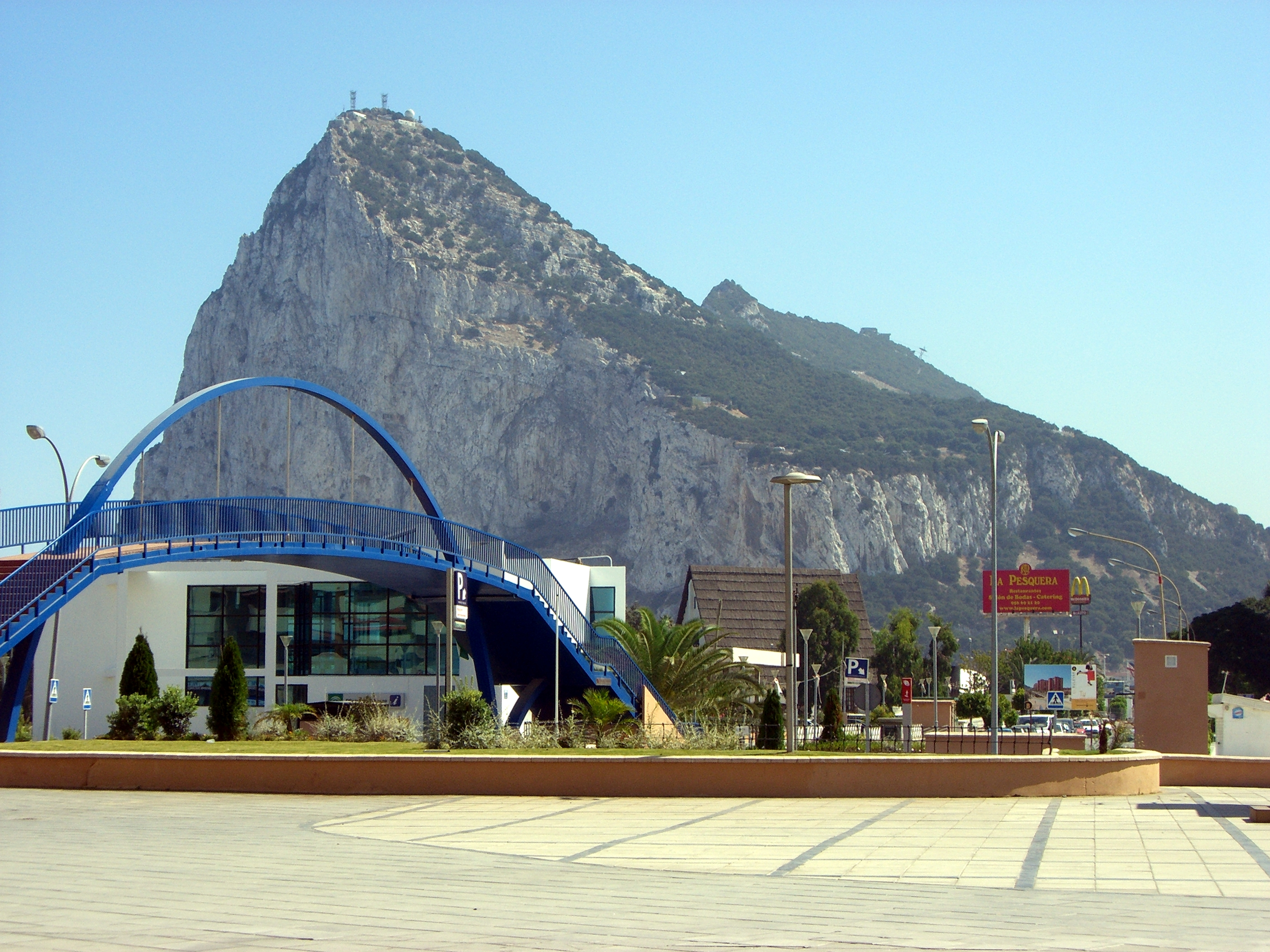 With a new bridge over Avenida del Ejercito